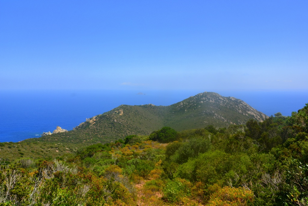 View on Zembra.